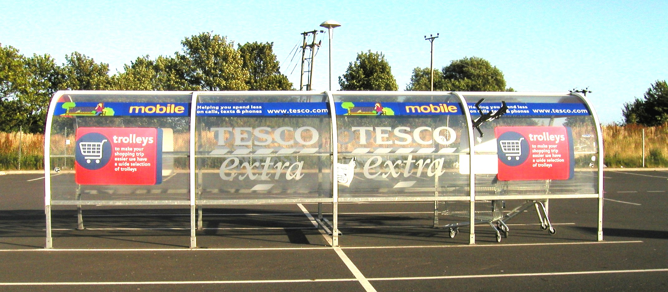 Tesco shopping trolley shelter